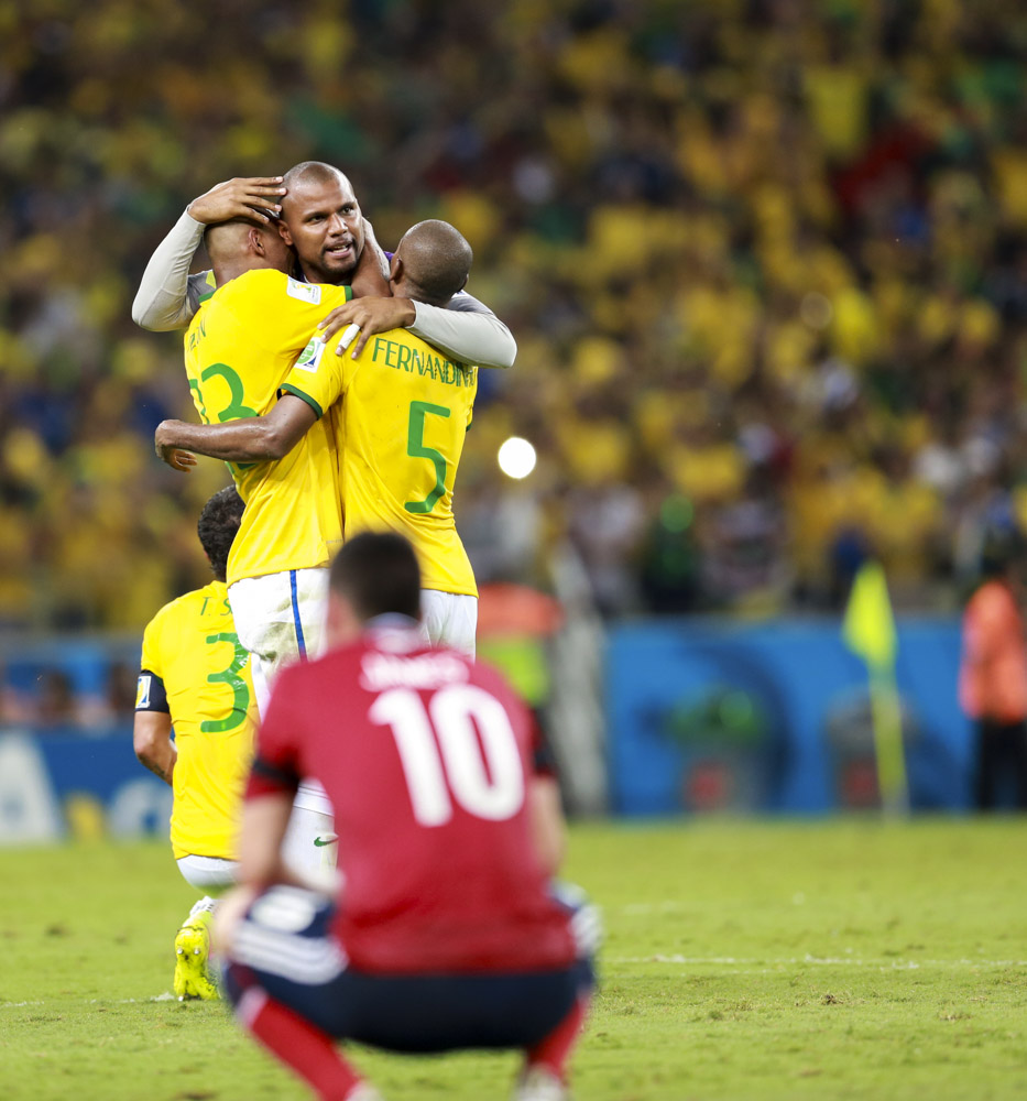 Brazil and Colombia match at the FIFA World Cup 2014-07-04